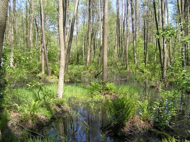 Natural preserve "Borowina".